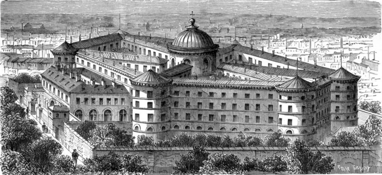 The Roquette Prisons, Paris.